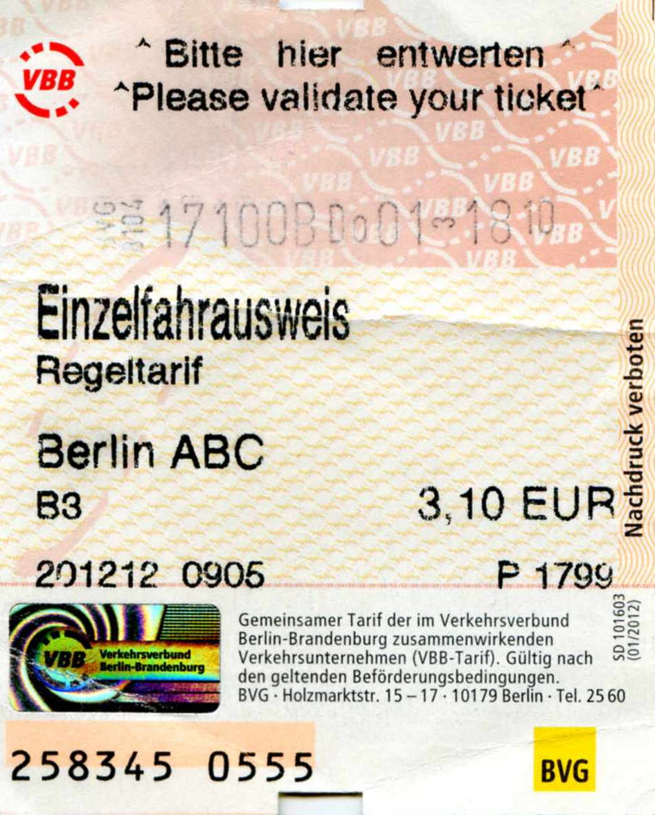 Germany, Verkehrsverbund Berlin-Brandenburg single ticket.